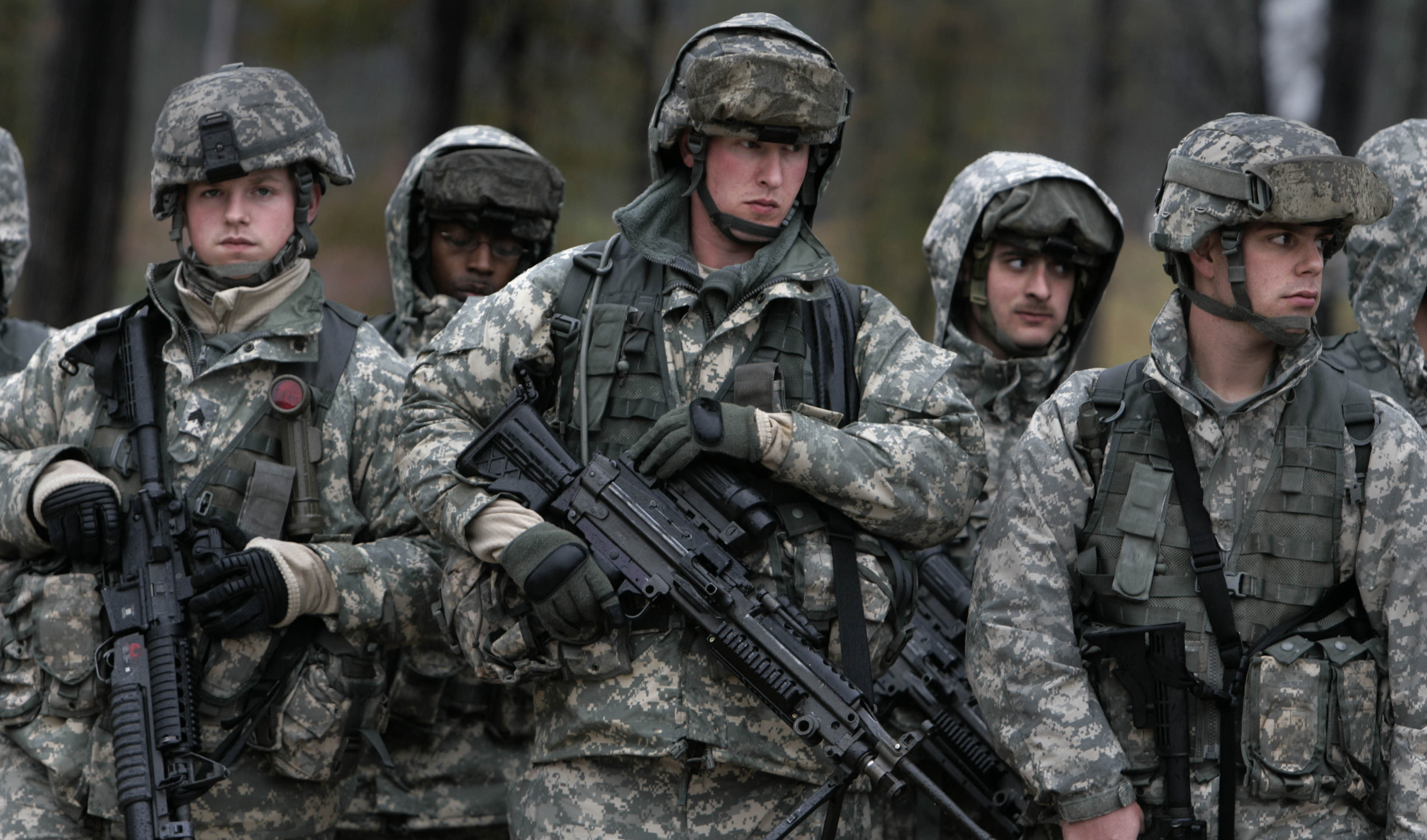 U.S. Army Spc. Josh Sadler, of Regimental Higher Headquarters Troop, 278th Armored Cavalry Regiment, Tennessee Army National Guard participates in training in preparation for deployment to Iraq at Camp Shelby Joint Forces Training Center in Hattiesburg, Miss., on Dec. 12, 2009. This will be the unitâ€™s second tour in support of Operation Iraqi Freedom in five years.